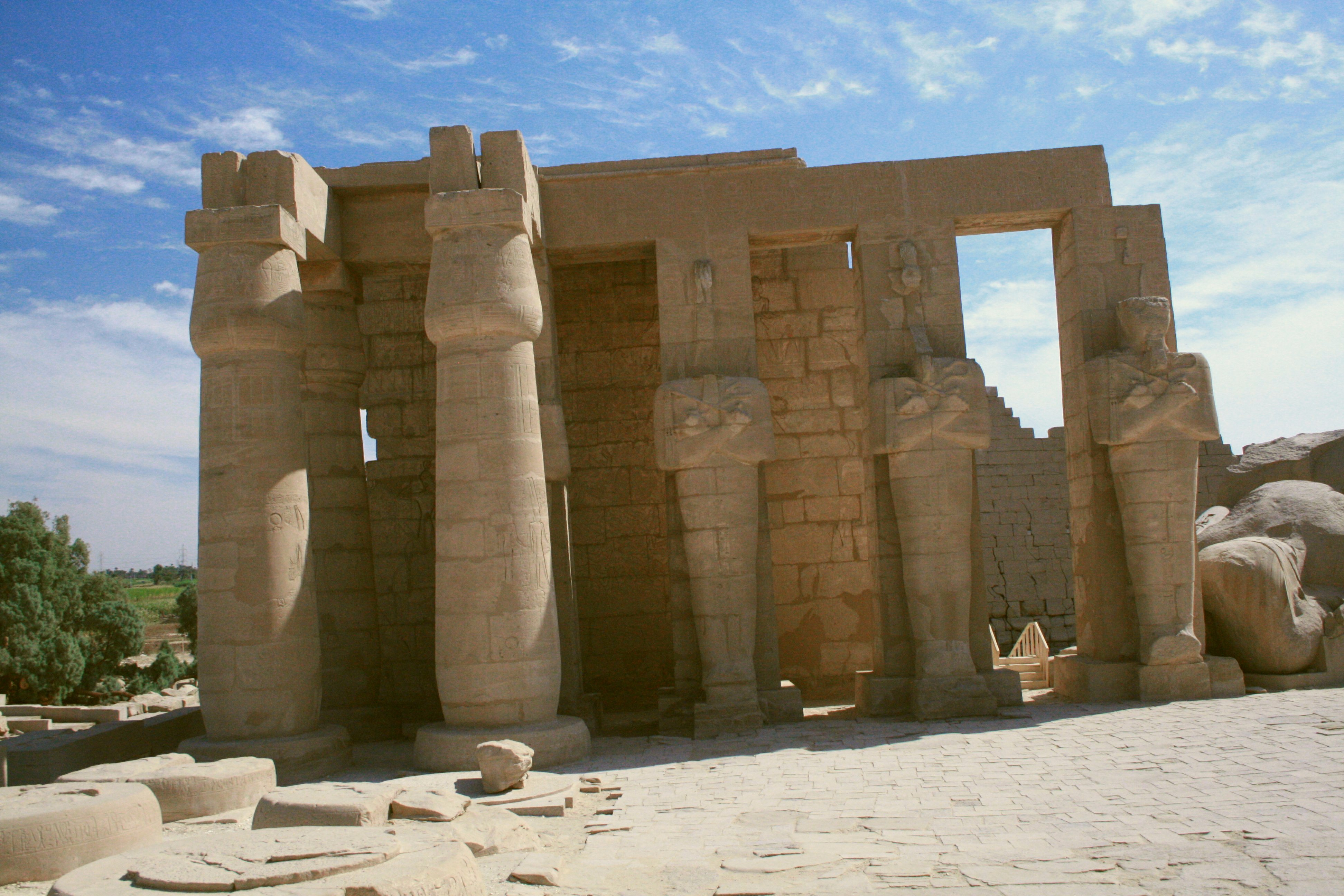 Mortuary Temple of Rameses II - The Ramasseum